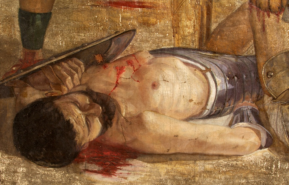 Portrait of a dying Gladiator struck down in the Colosseum